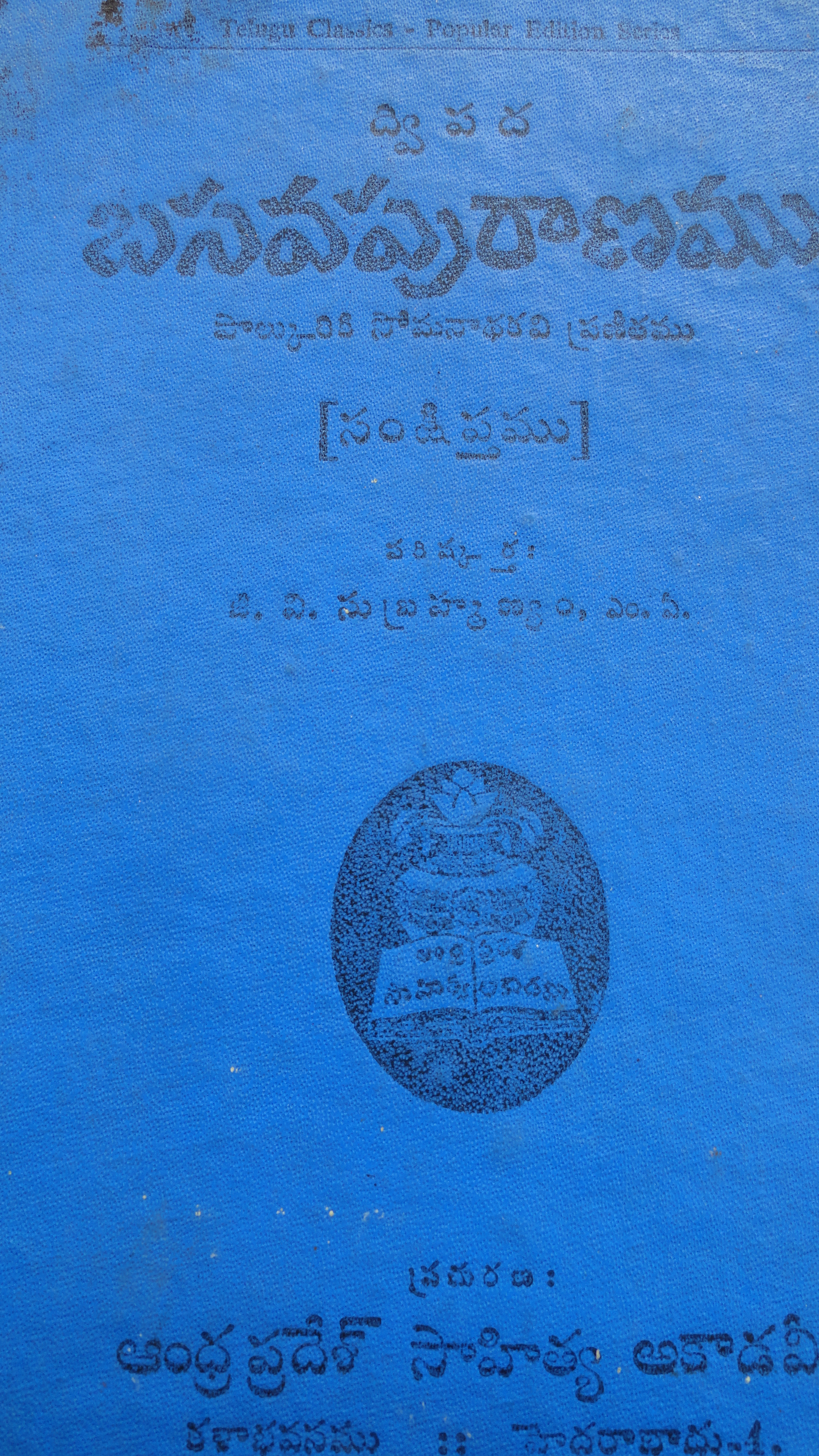 Basava puraaNamu/book cover